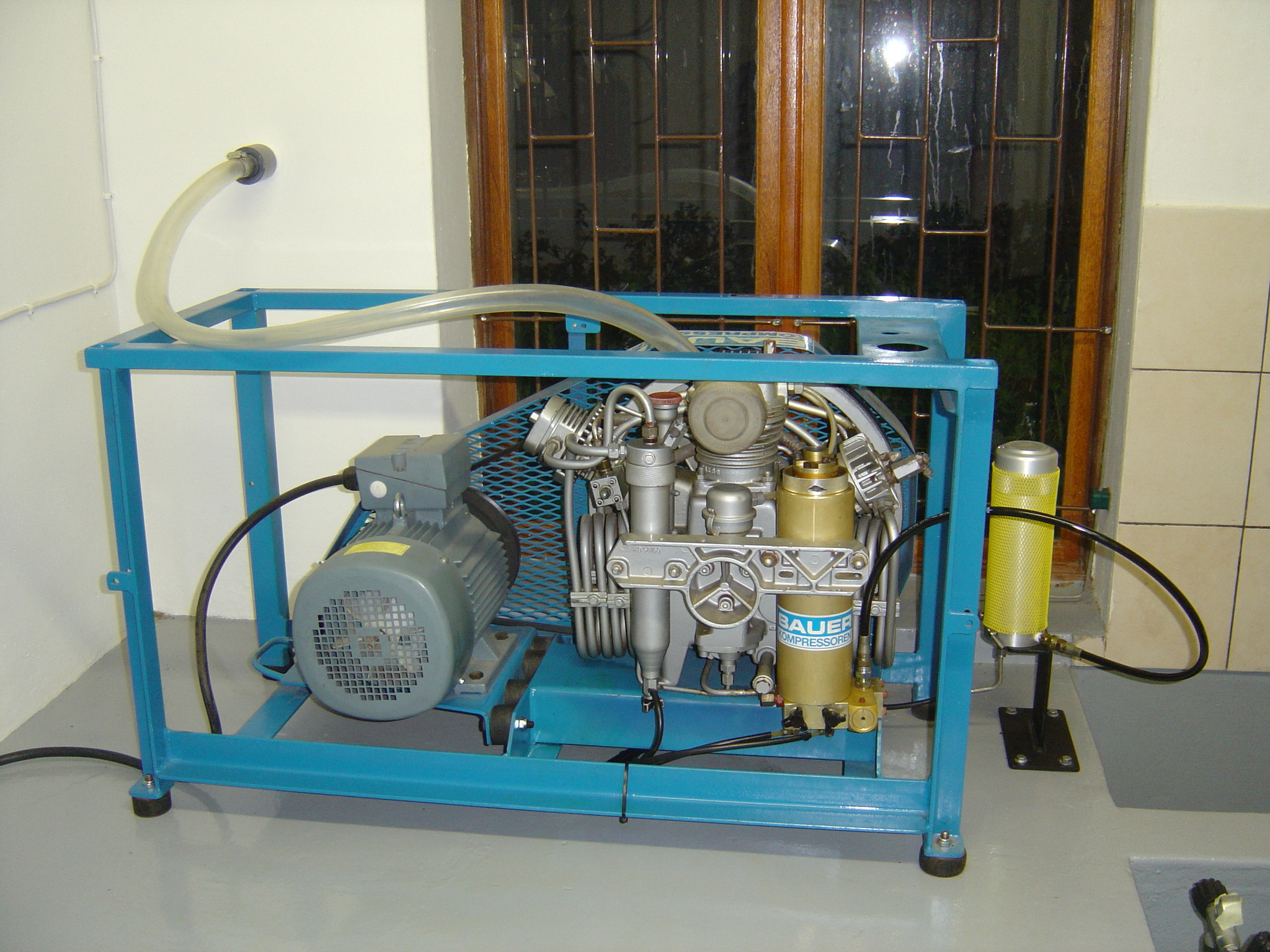 Private filling and blending station for diving gas